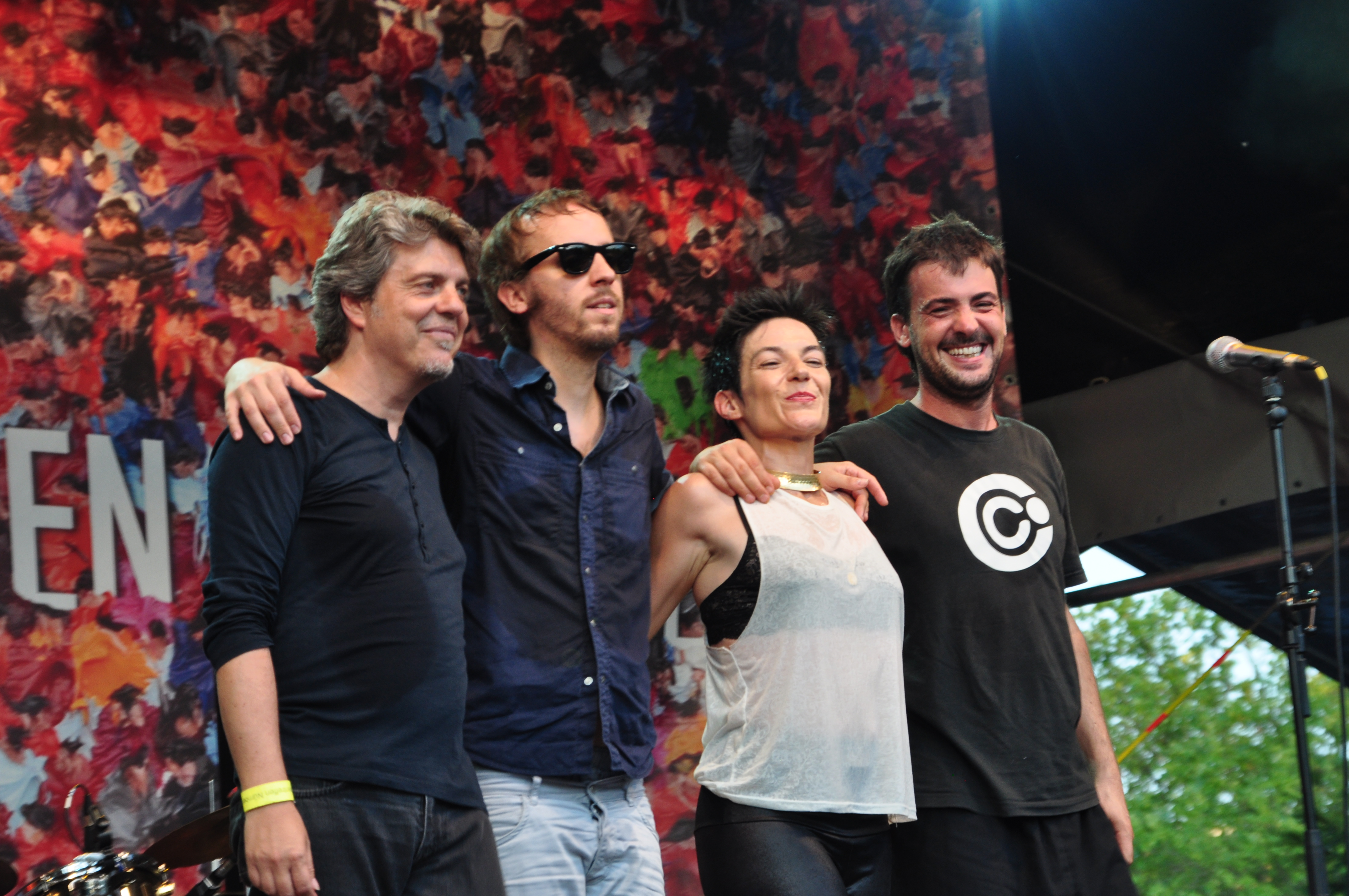 La Shica (Spain), appearance at the 38th music festival "Bardentreffen" 2013 in Nuremberg, Germany, Schuett Isle stage